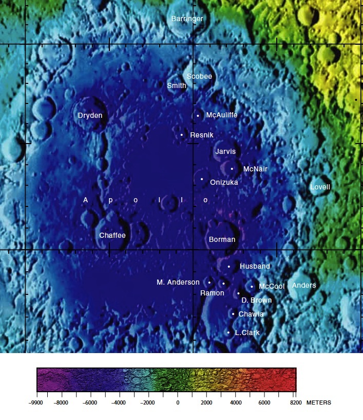 Part of the USGS Moon far side chart